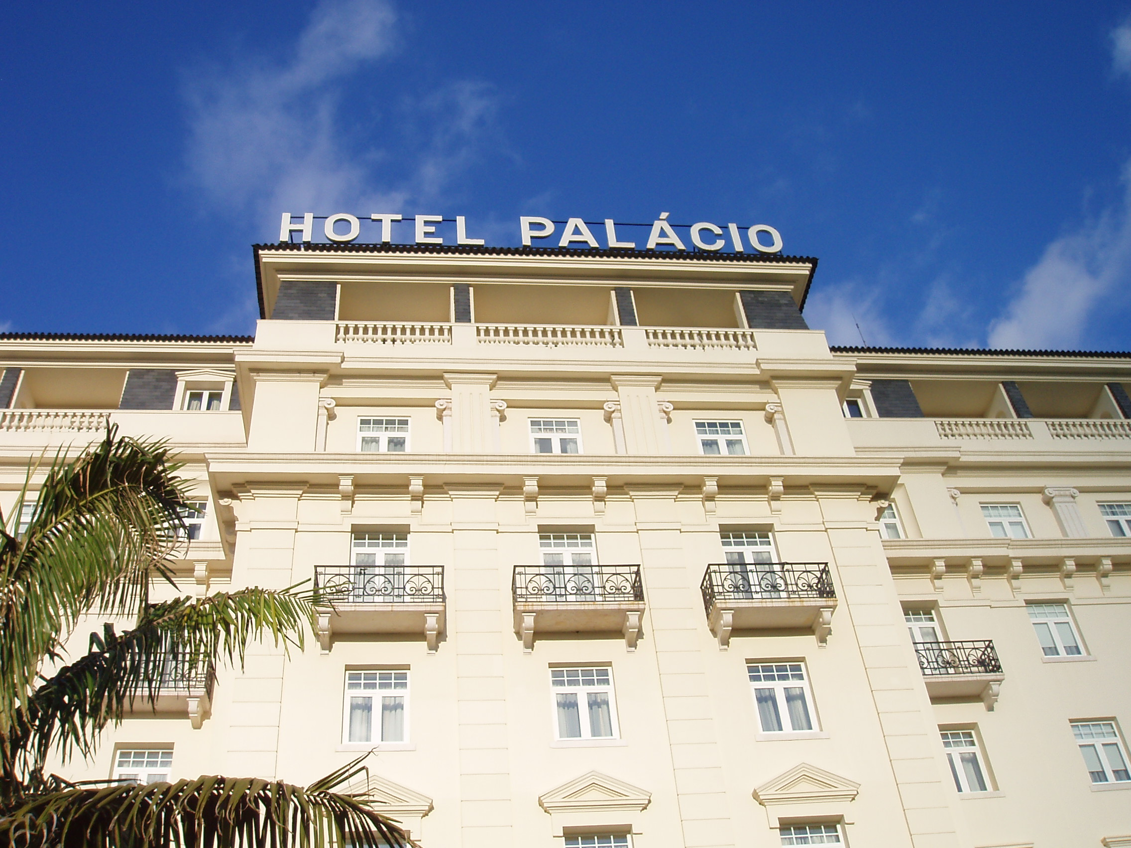 Front view of the Hotel Palacio in Estoril, Portugal.